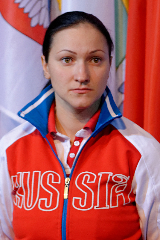 Russia's Yulia Biryukova at the award ceremony of the women's team foil event at the European Fencing Championships at Rhénus Sport in Strasbourg on 14 June 2014.